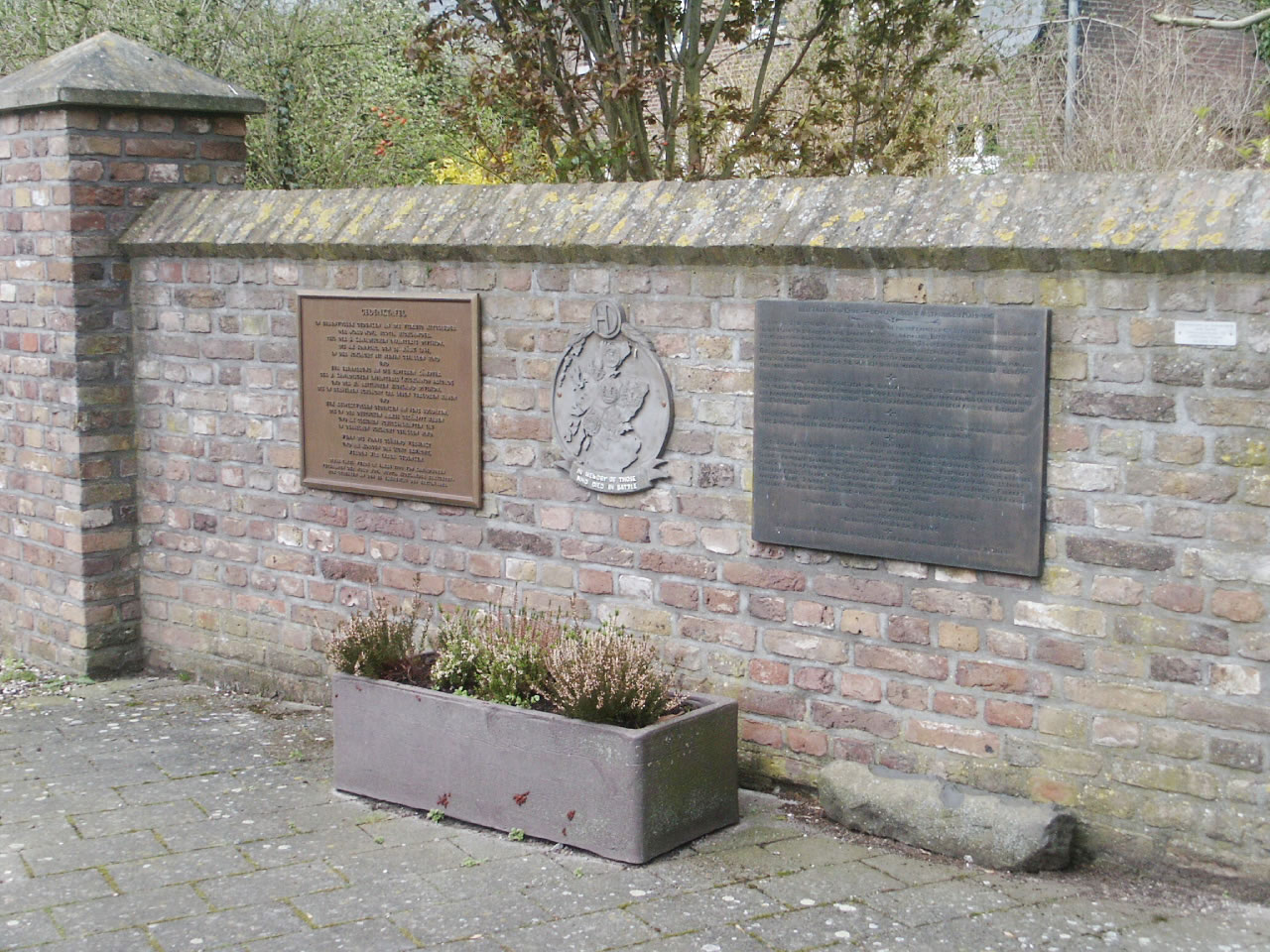 Rees Bienen, Germany - WWII Memorial near: Kirche Sankt Cosmos und Demian